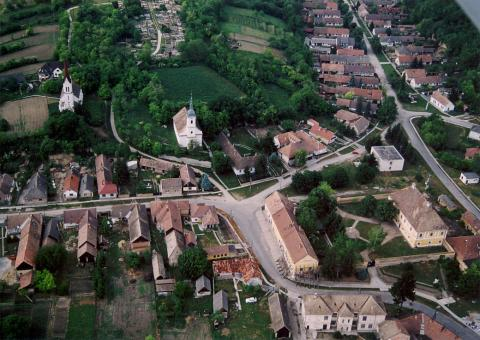 Kölesd, Hungary, aerialphotography